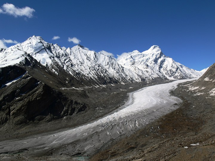 Drang Drung is a 22 kms long glacier system of the Great Himalayan Range, and source of Zanskar River, Ladakh, India